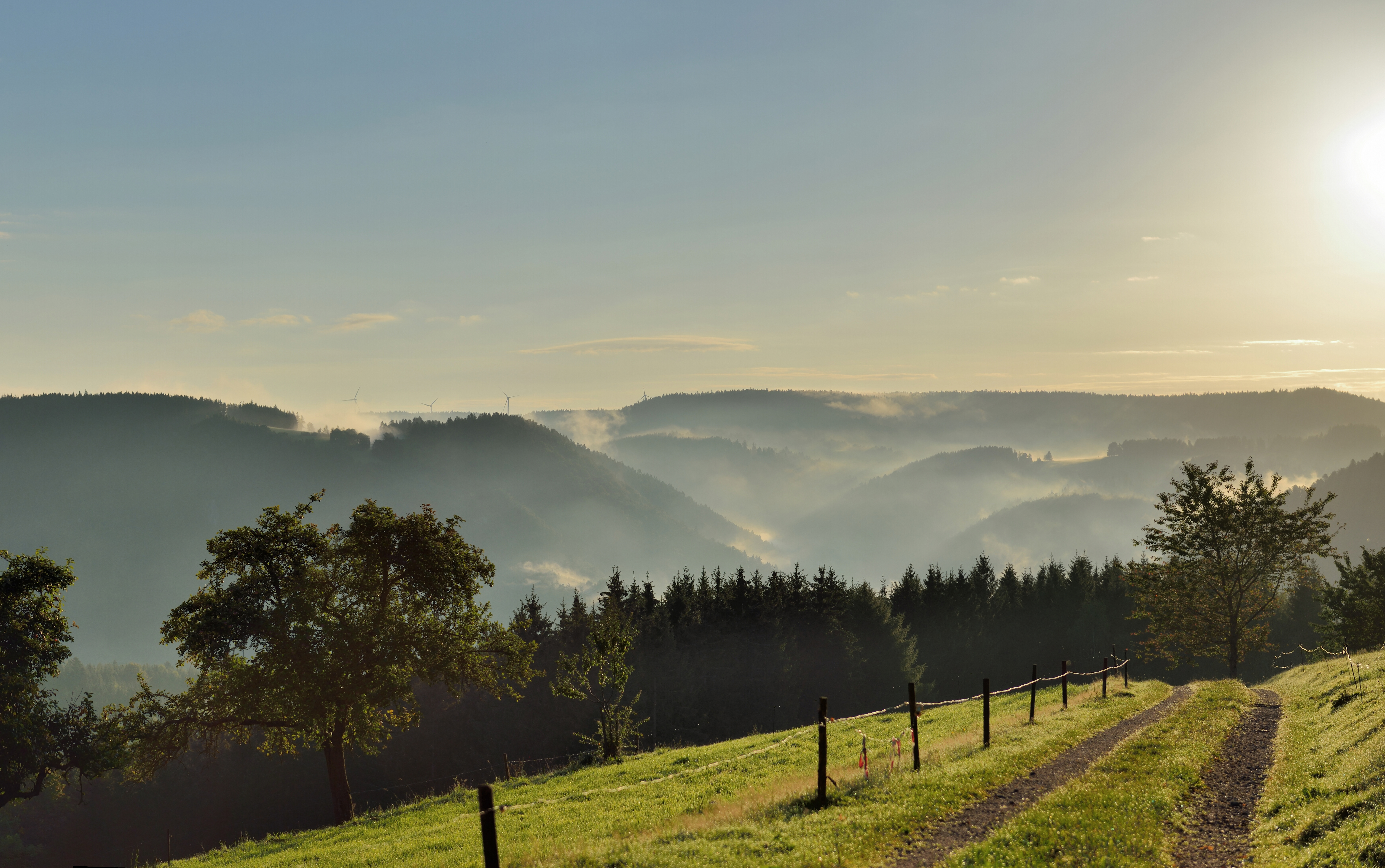 Schonach, Black Forest: sunrise and morning haze.